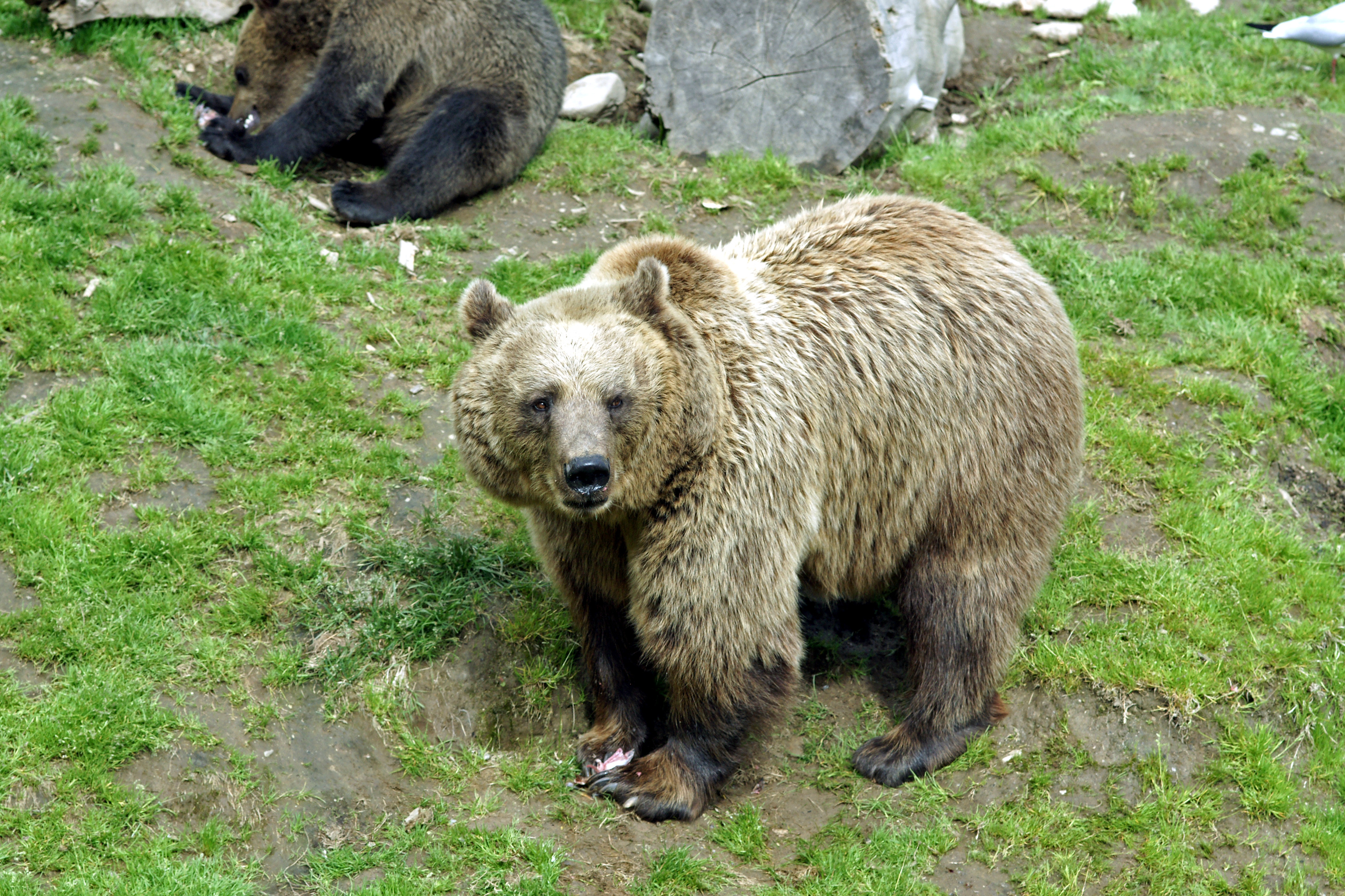 Brown bear (Ursus arctos) in Ähtäri Zoo.